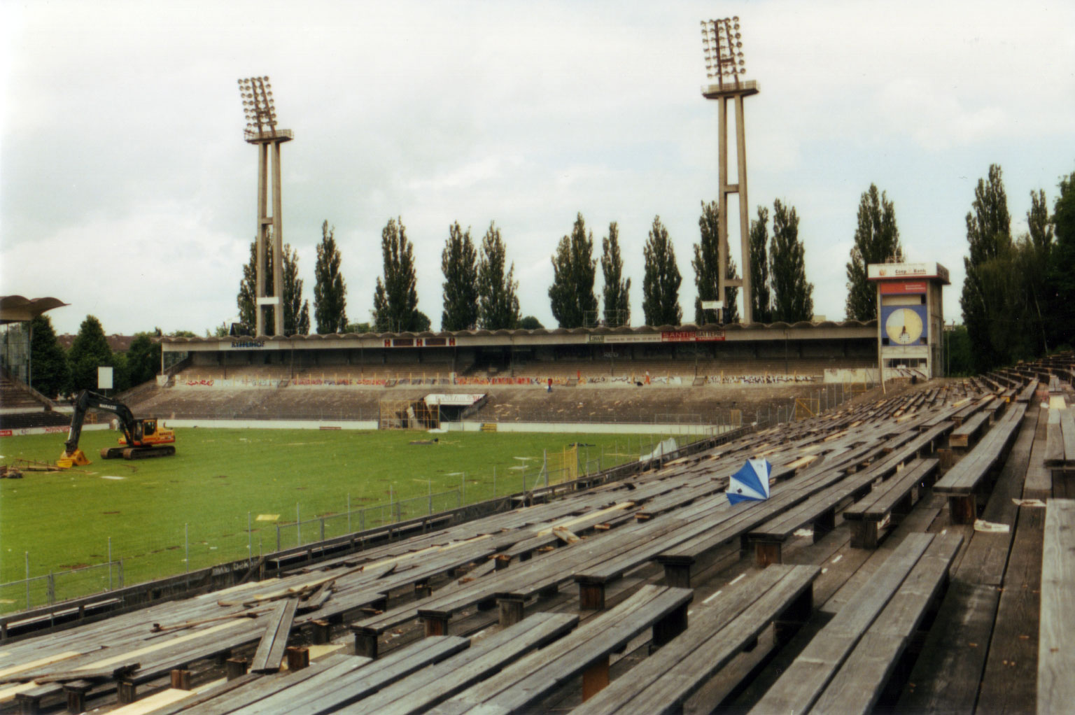 The demolition of the Wankdorf Stadium in Berne, Switzerland.